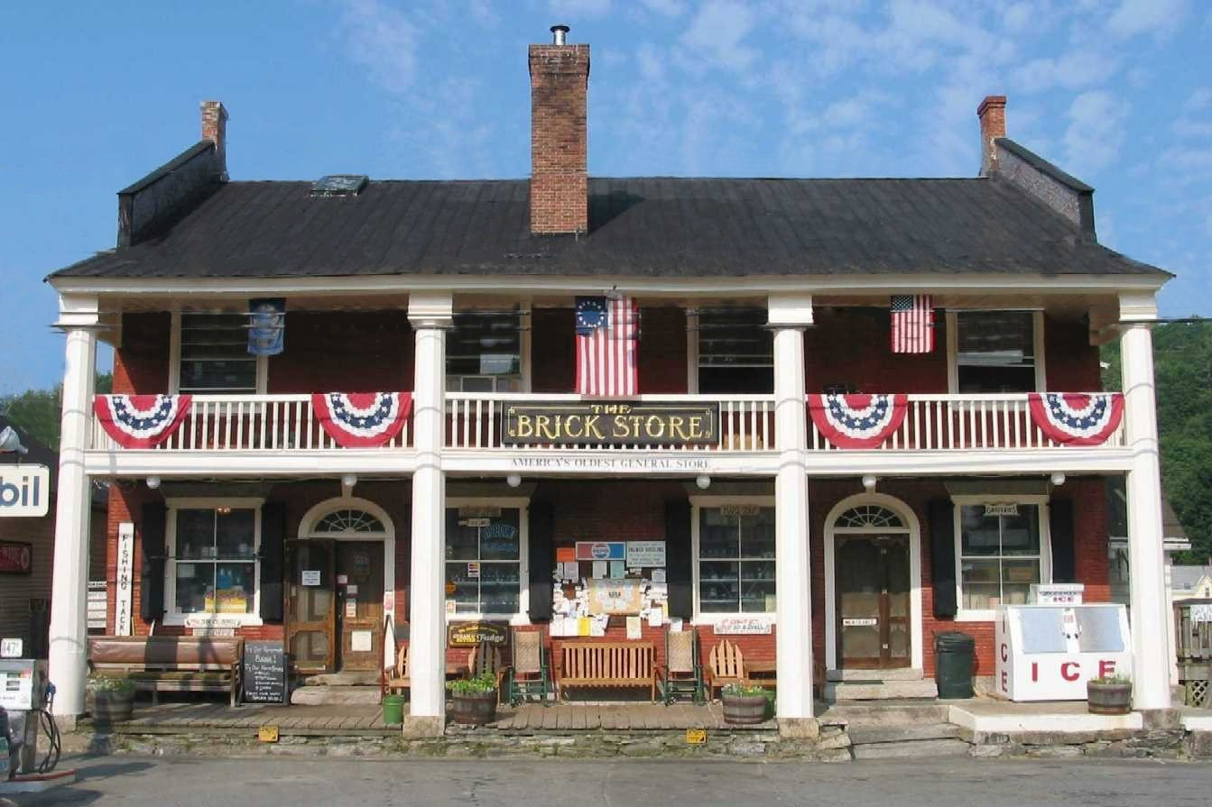 The Brick Store in Bath, New Hampshire, the oldest continually operating country store in the nation. However, there are older country stores in the U.S., such as The Old Country Store and Museum in Moultonborough, NH